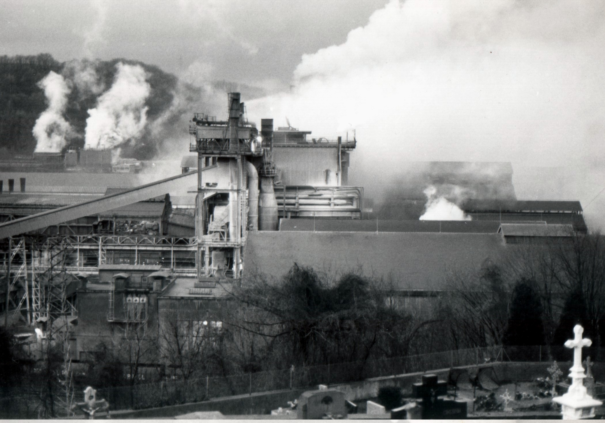 The integrated steel mill of La Providence in Réhon (France) in 1978.